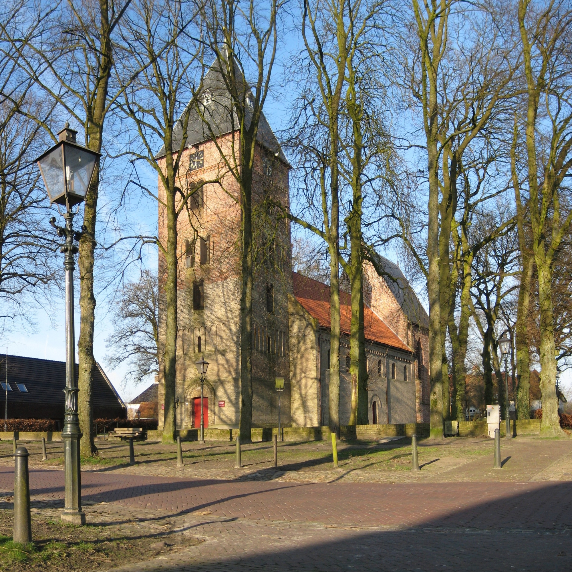 The Romanesque Sint-Bonifatiuskerk in Vries, a village in the Dutch province of Drenthe.